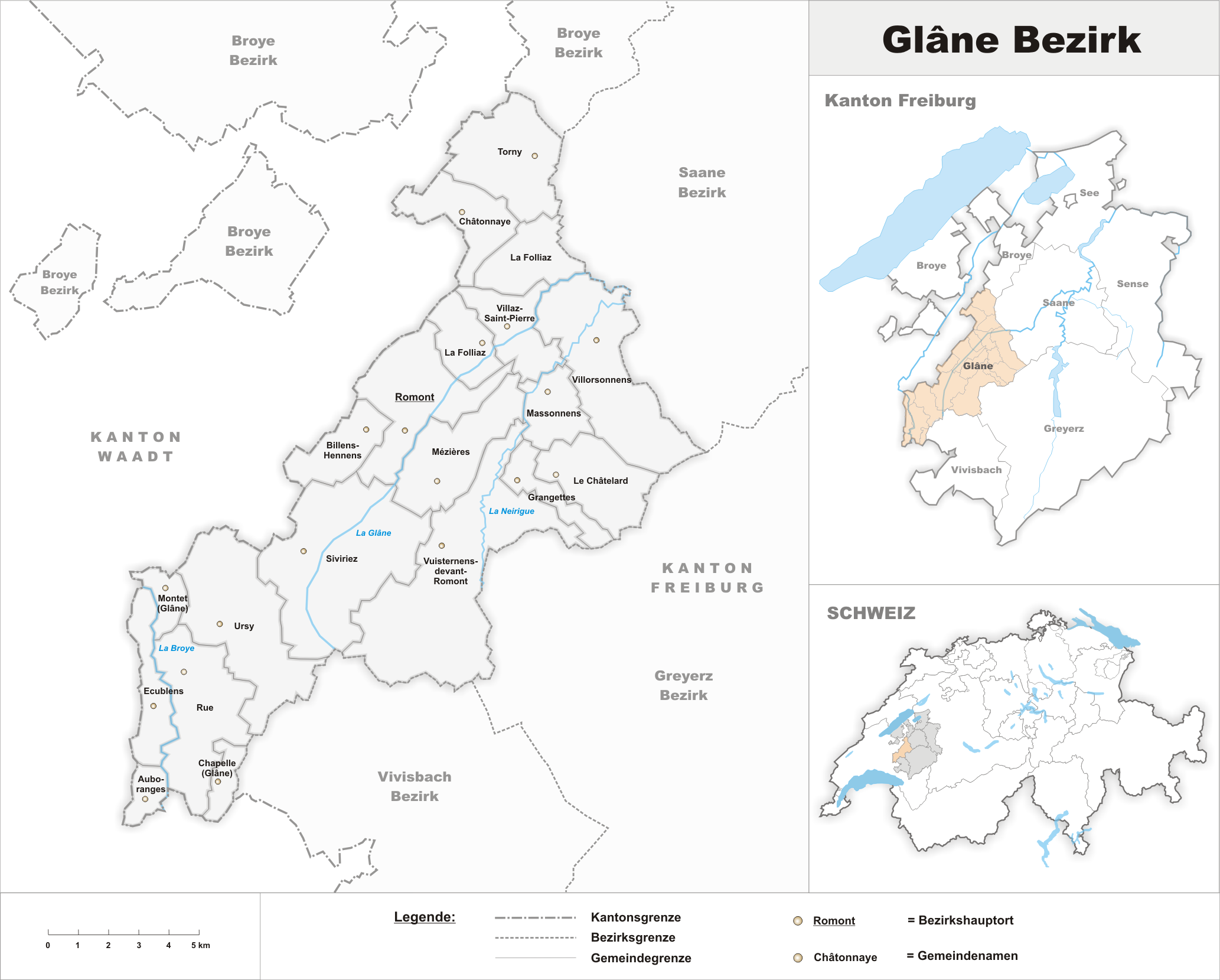 Municipalities in the district of Glâne